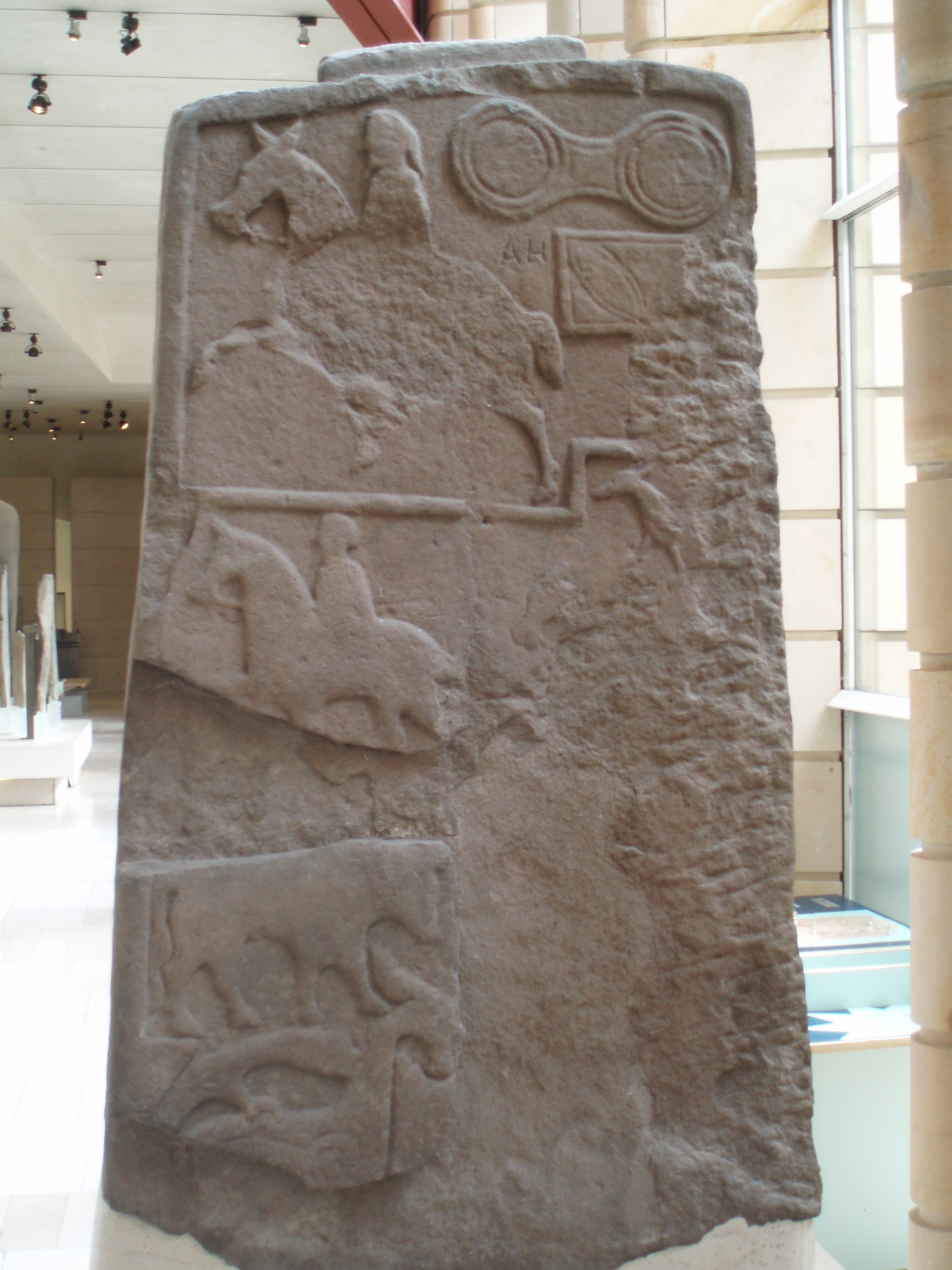 Rear of Woodwrae Stone, from Woodwrae, Angus, now on display at the Museum of Scotland